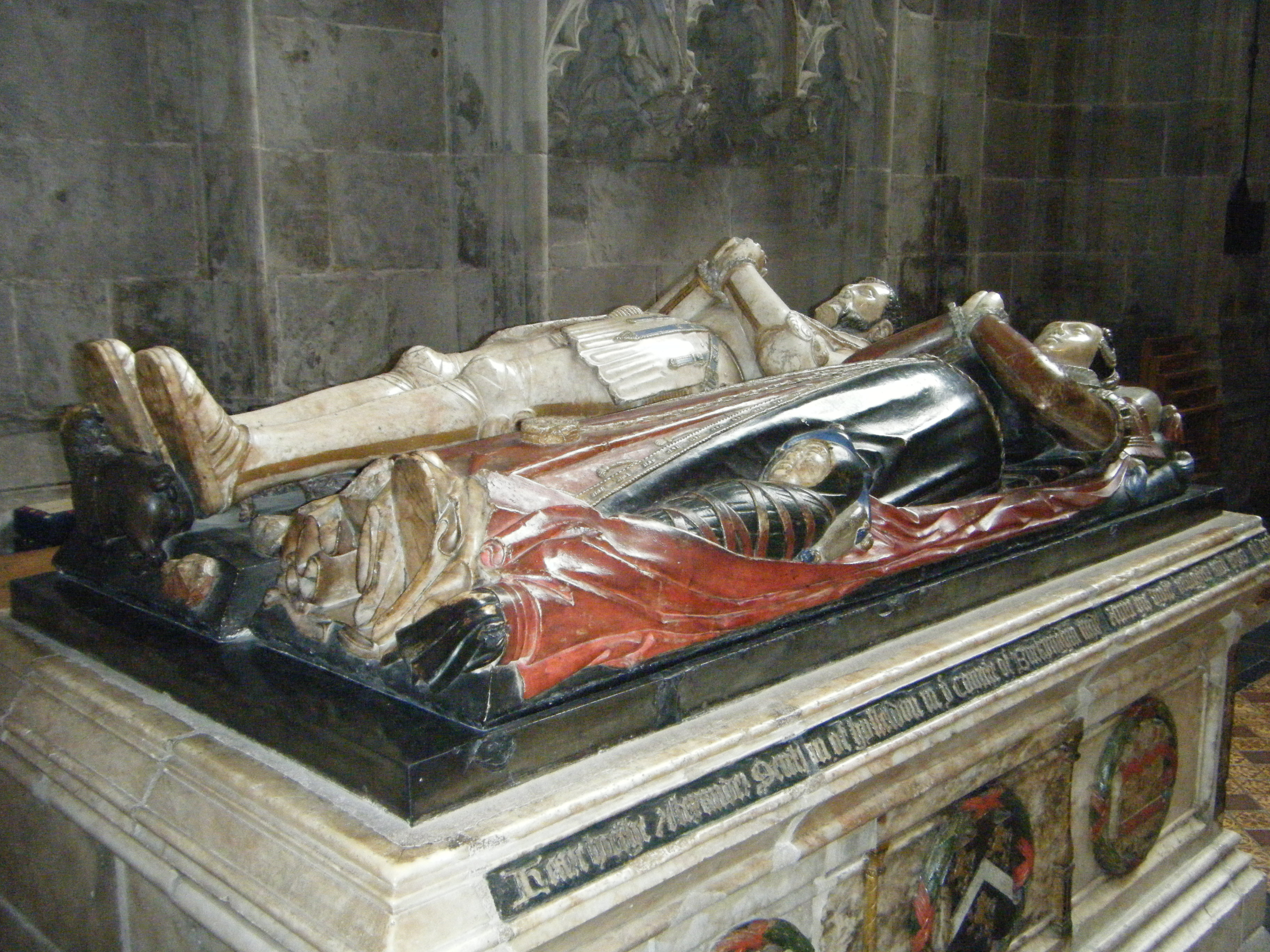 Monument in the South Transept, Hereford Cathedral. From Fisher, A. Hugh, The Cathedral Church of Hereford, London, 1898, p.37[1]: "There is an interesting altar-tomb of Sir Alexander Denton, 1576, of Hillesden, Co. Bucks, Esq., and his lady and a child in swaddling clothes, toward the south-east angle of the transept. The effigies are in alabaster, and retain considerable traces of colour. They are in full proportion, and the knight wears a double chain and holds a cross in his hands. The Dentons were ancestors of the Coke family, now Earls of Leicester. The swaddled body of the child lies to the left of its mother,[pg 052] its head resting on a little double pillow by her knee, and a part of the red cloth on which she lies wraps over the lower part of the babe. To the right of the knight, balancing the child in the composition, lie his two gauntlets or mail gloves, which have been much scratched with names. The head of the knight rests upon his helmet. Round the verge of the tomb is this inscription: "Here lieth Alexander Denton, of Hillesden, in the County of Buckingham, and Anne his wife, Dowghter and Heyr of Richard Willyson of Suggerwesh in the Countie of Hereford; which Anne deceased the 29th of October, A.D. 1566 the 18th yere of her Age, the 23rd of his Age." "But," says Browne Willis, "this was but a cenotaph, for Alexander Denton, the husband, who lived some years after, and marry'd another lady, was bury'd with her at Hillesden, Co. Bucks; where he died January the 18th, 1576." Alexander Denton married firstly Anne Willison (1548-1566), who died aged 18, a daughter of Richard Willison (d.1575) of Sugwas near Hereford, by his wife Anne Elton of Ledbury, whose joint monument with recumbant effigies survives, mutilated, in Madley Church. Arms of Willison: A chevron between three lions rampant, as visible on the Madley Church monument and on the Denton monument in Hereford Cathedral.